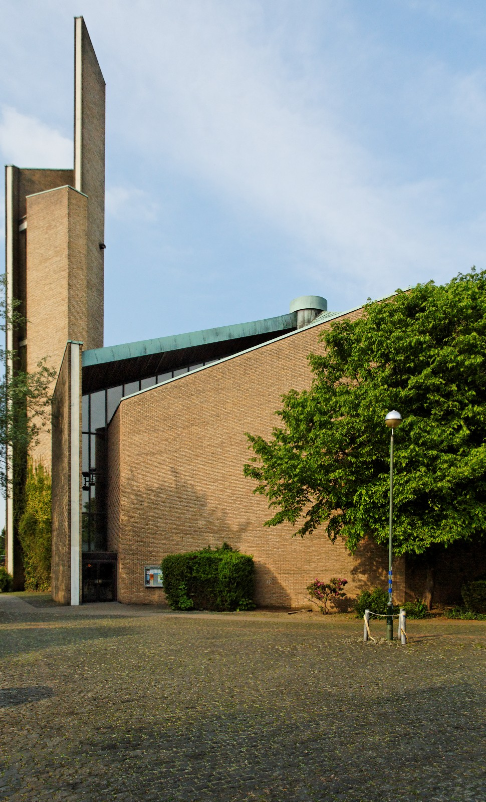 Dietrich Bonhoeffer Church in Düsseldorf-Garath, Germany